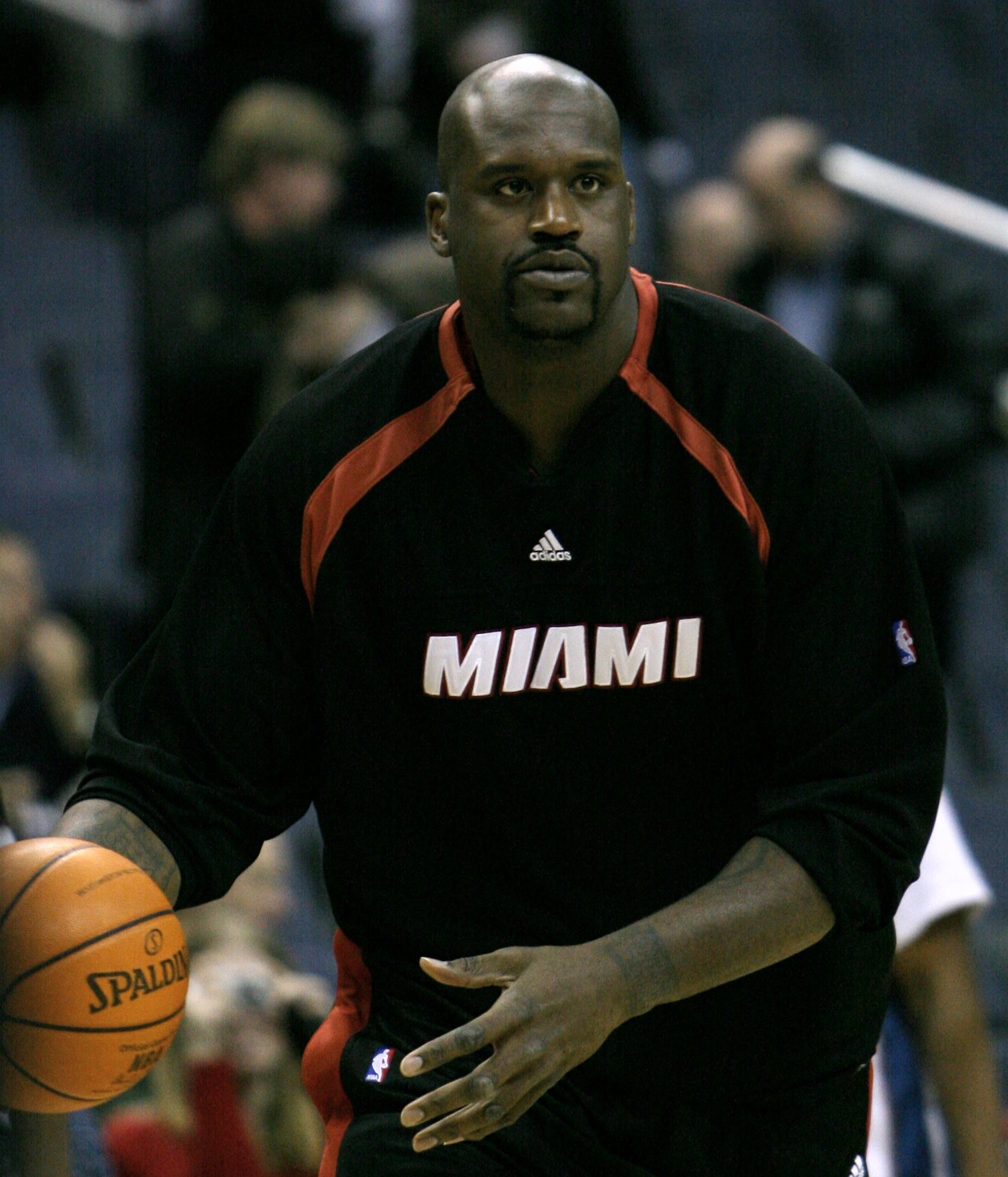 Shaquille O'Neal at the Washington Wizards v/s Miami Heat game on 02/28/07